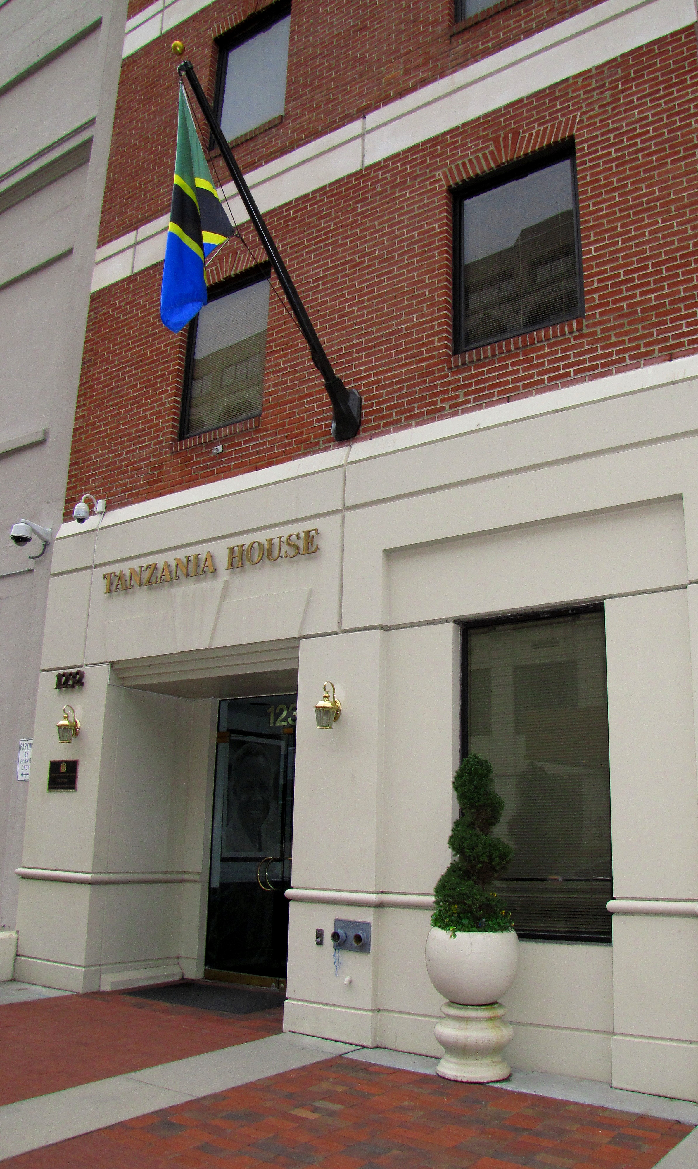 Embassy of Tanzania, Washington, D.C.